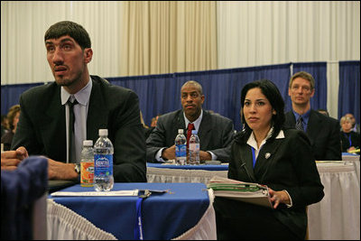 Former NBA player Gheorghe Mureşan (far left) and White House staff member Sonya Medina (far right) at the "White House Conference on Helping America's Youth" at Howard University, on October 27, 2005. Basketball players Jerome Vernon Williams (left) and Detlef Schrempf (right) are visible in the background.